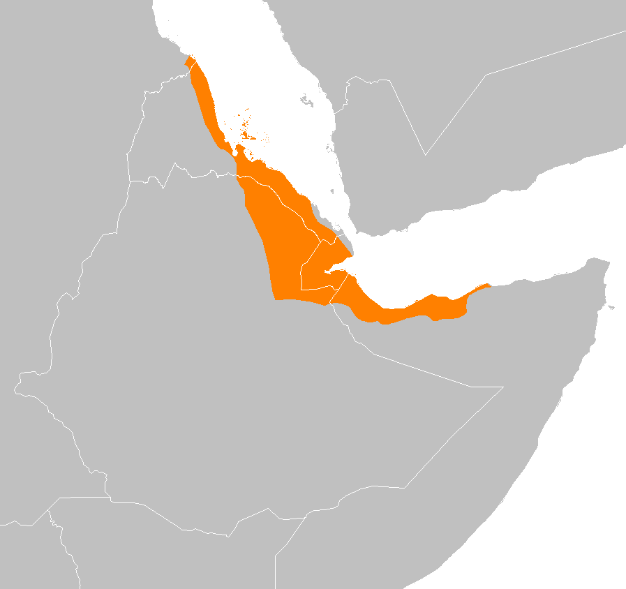 Ethiopian xeric grasslands and shrublands ecoregion map. In the Deserts and xeric shrublands Biome.